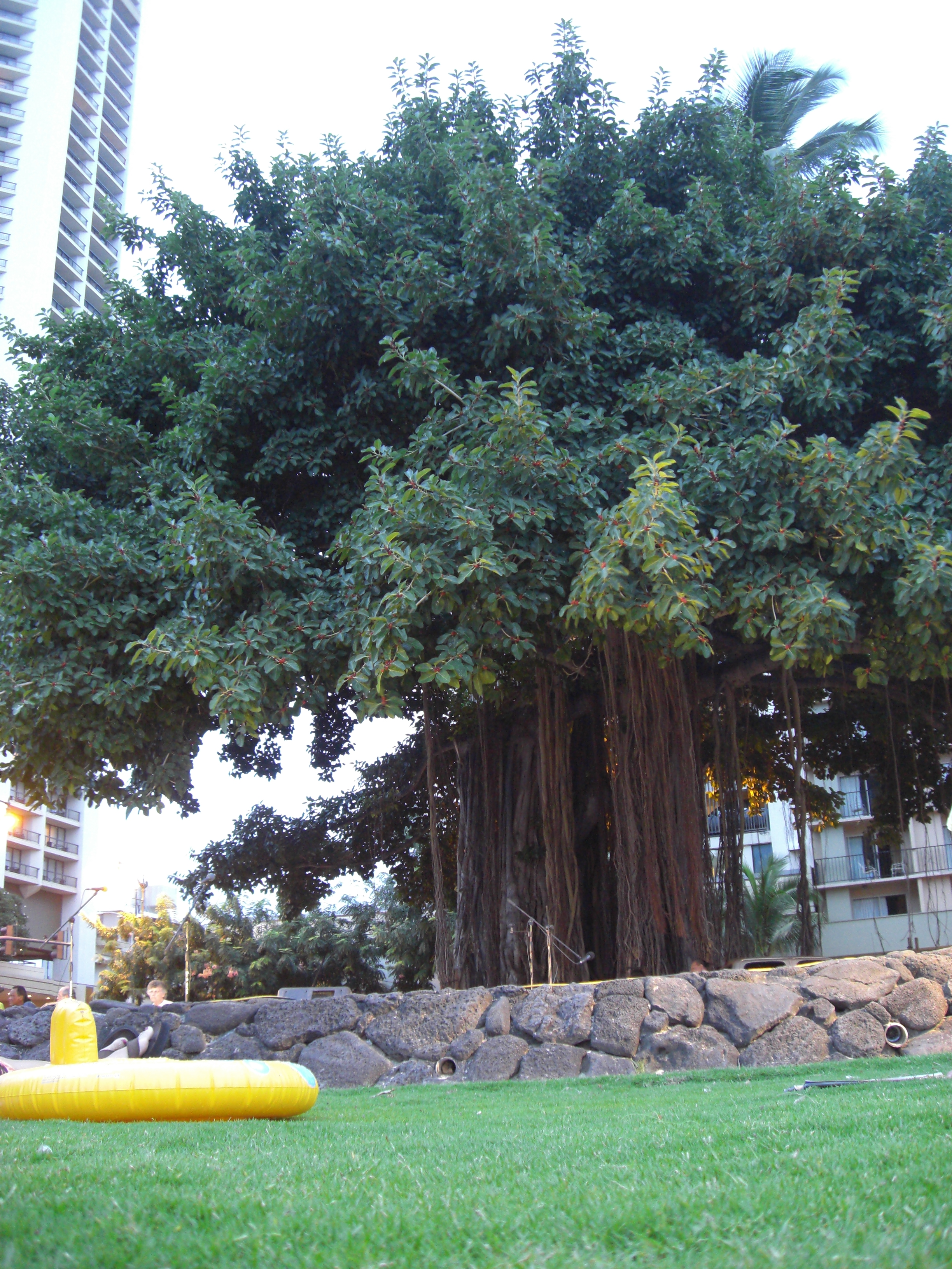 Banyan tree, Waikiki Beach, Oahu, Hawaii, USA